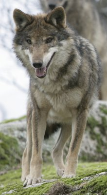 In the image we can clearly see the white stripes in the snouts and the black marks in the front legs, two of the characteristics of the sub. signatus